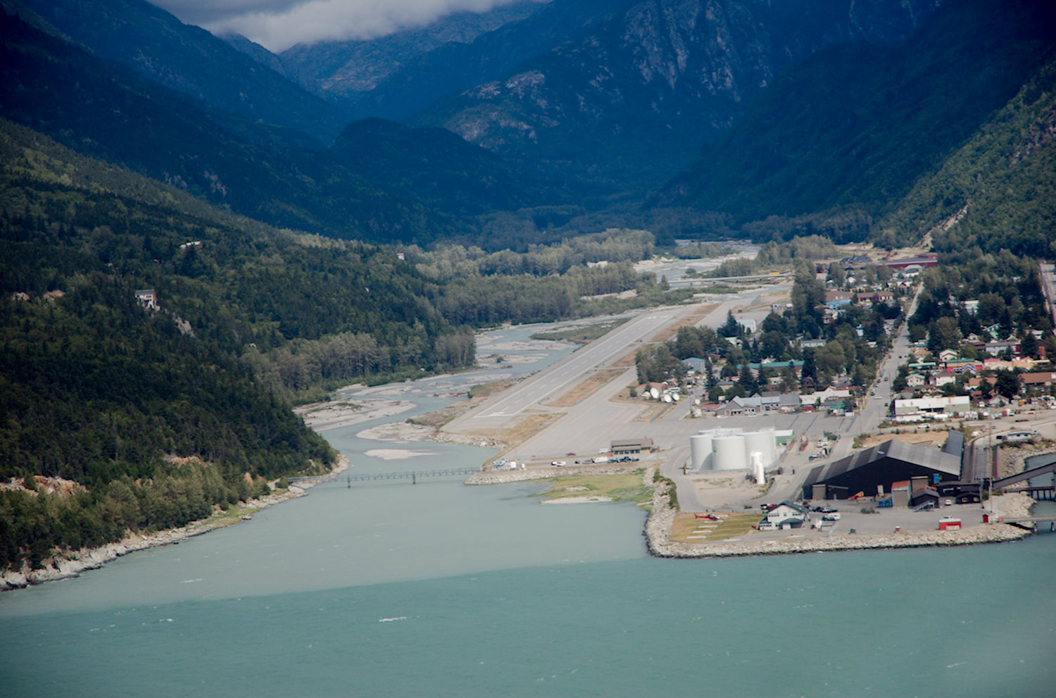 View of Runway 2 and heliport at Skagway Airport (SGY) in Skagway, Alaska.